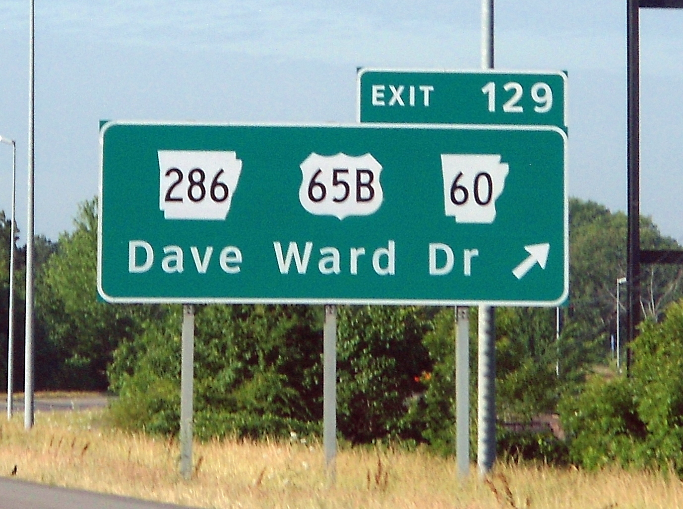 This highway sign shows two different cutouts of Arkansas being used to mark Arkansas state highways